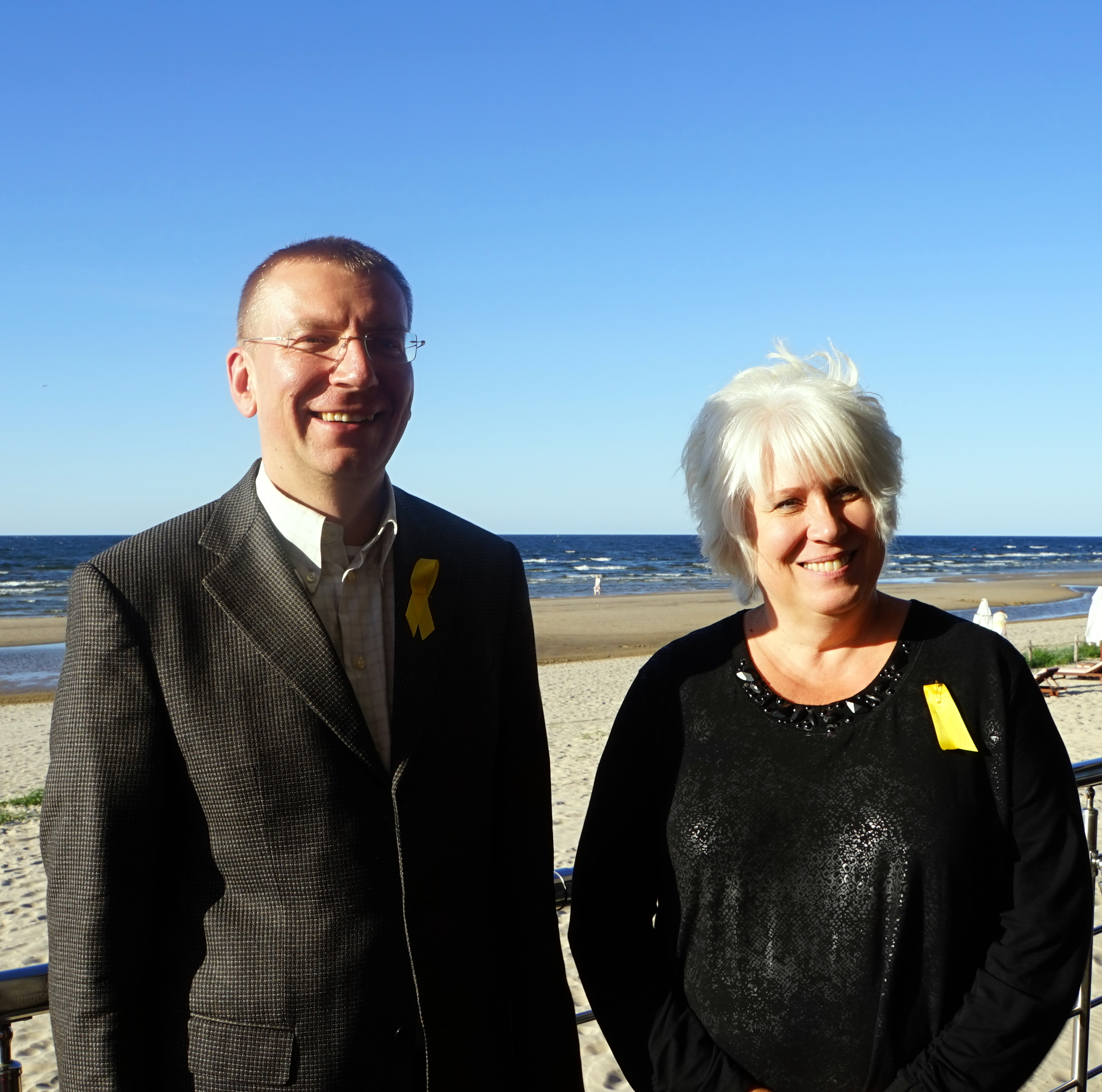 Meeting with Latvian FM Edgars Rinkēvičs